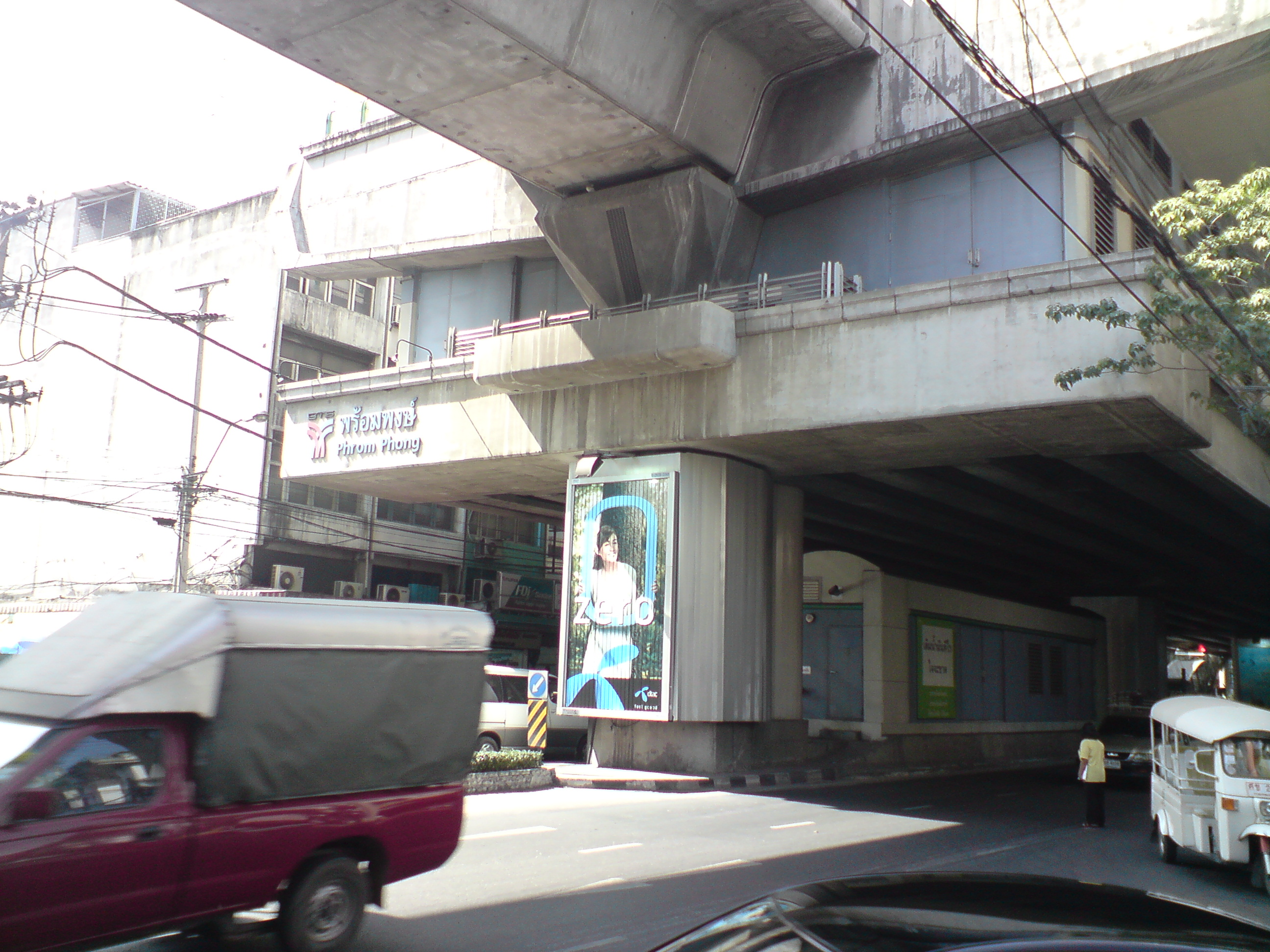 Phrom Phong Skytrain station